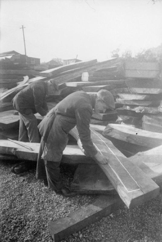 Rye Shipyard- the Construction of Motor Fishing Vessels, Rye, Sussex, England, UK, 1944 At Rye harbour, shipwrights make chalk marks on timbers which will be sawn according to these marks to become the frame of a motor fishing vessel. The marks are made according to the grain of the wood. The original caption states that the oak is specially selected for this purpose from selected trees, 100 of which are used to build each MFV. The original caption also states that each tree is between 80 and 250 years old.